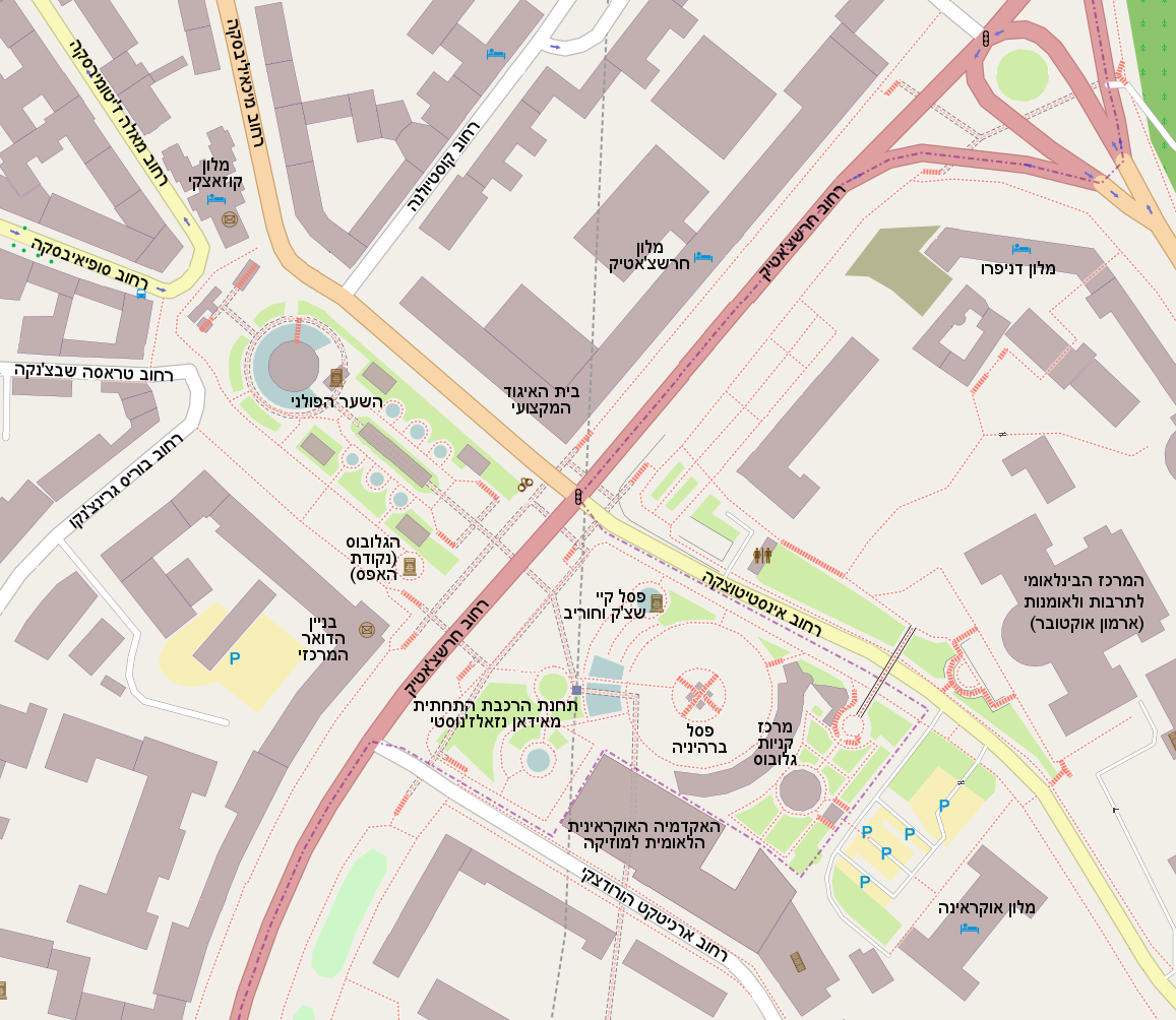 Map of Maidan Nezalezhnosti (Independence Square) — the central square of Kiev, the capital city of Ukraine. Center of Euromaidan in Kiev.